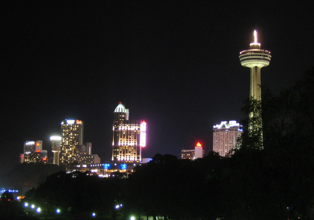 Niagara Falls, Ontario, Canada, at night. Hotels from far left to right: The Sheraton Fallsview, The Marriott Fallsview, The Marriott Tower restaurant, Radisson hotels, Embassy Suites Niagara, The Oakes Hotel, Days Inn, The Niagara Fallsview Casino Resort, The Renaissance Fallsview, The Hilton, and The Skylon tower.